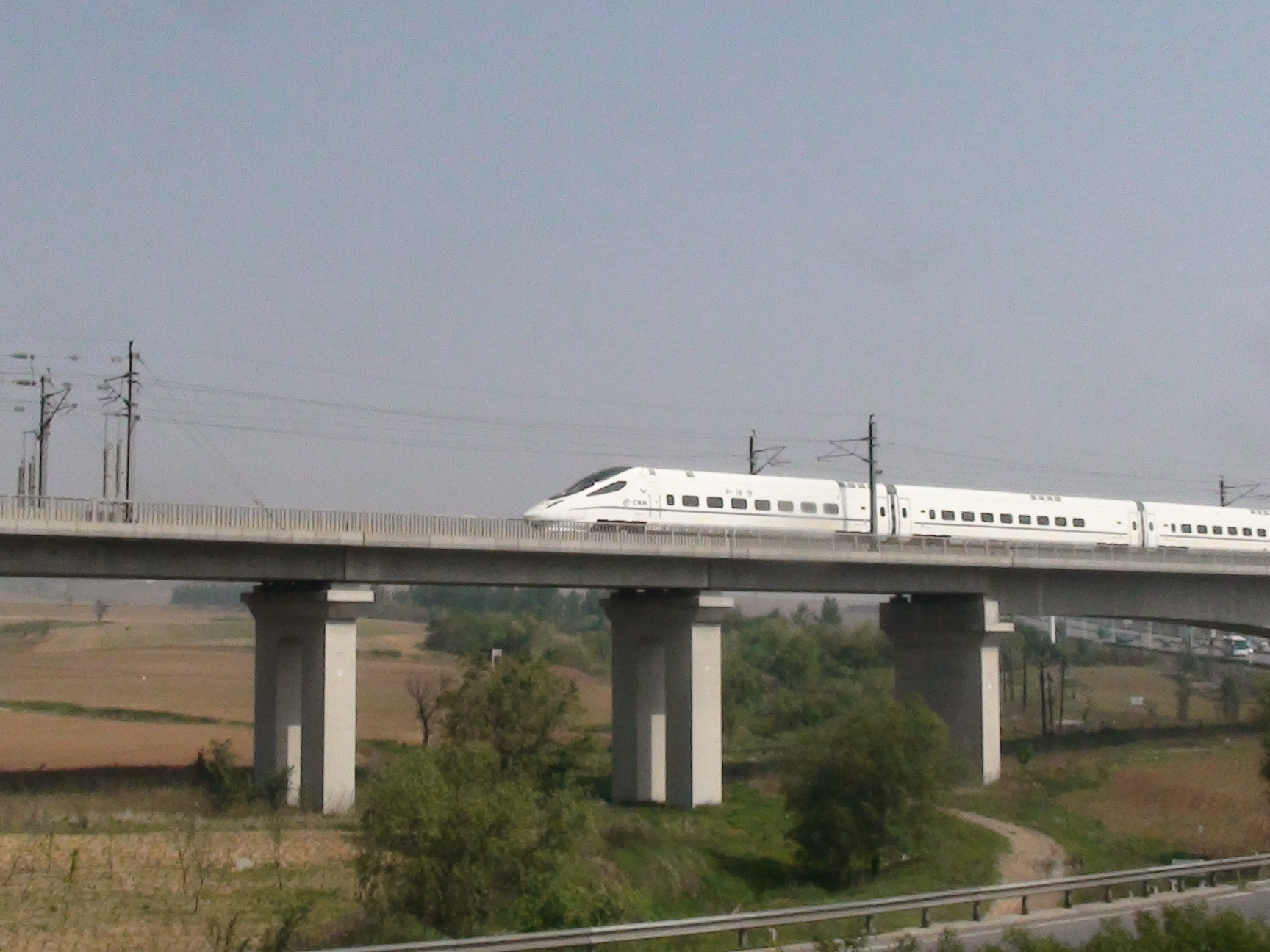 A CRH5 trainset on a bridge of Qinshen Passenger Dedicated Line, Liaoning Province, China.